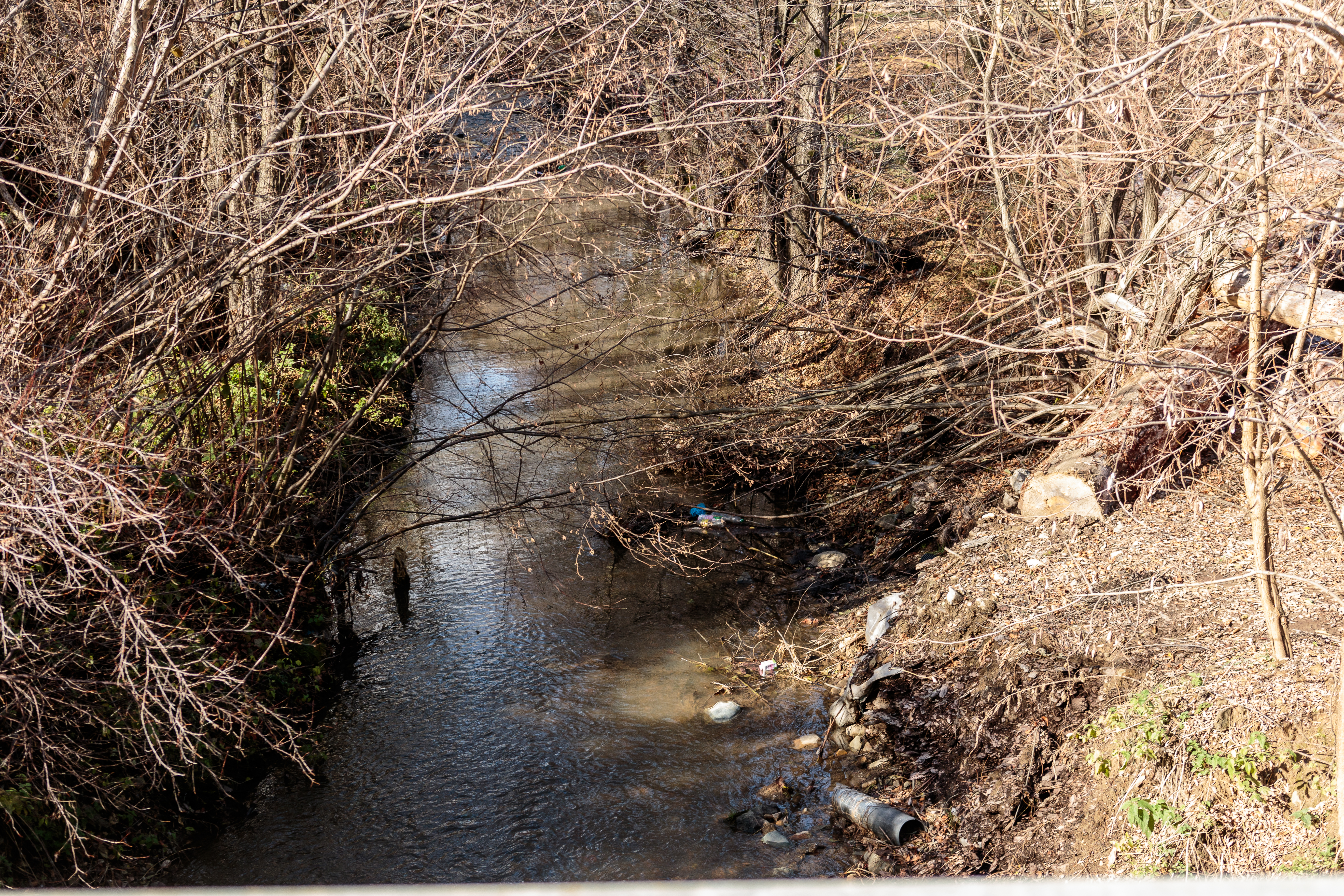 View of the Ratevo River